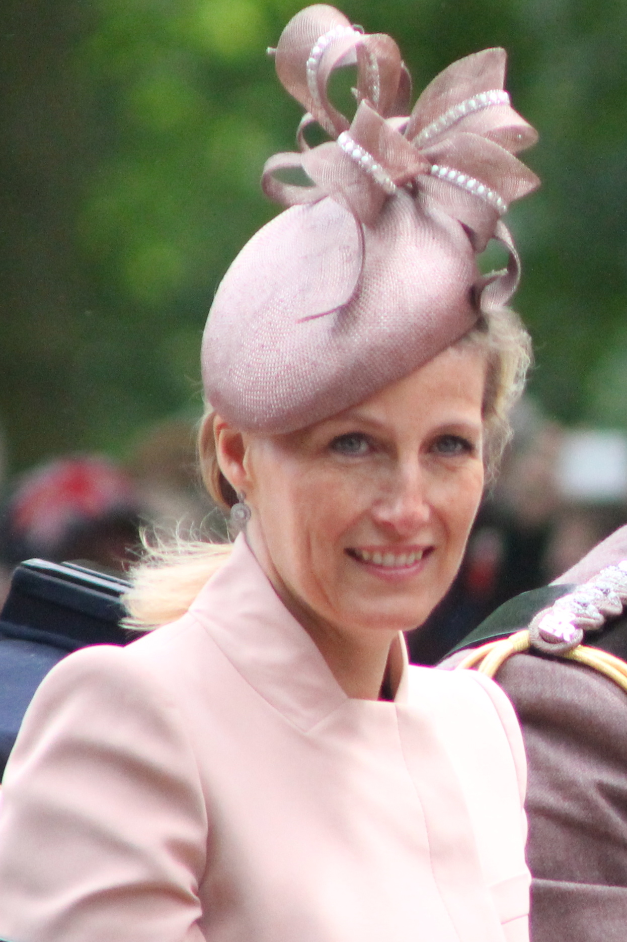 The Countess of Wessex at Trooping the Colour June 2013